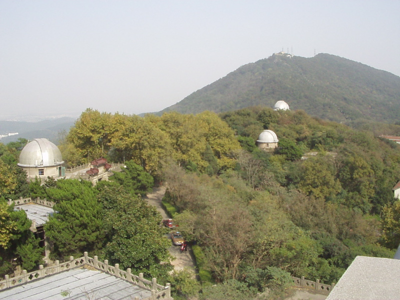 Observatory on the purple mountain, Nanjing, China Source: Julius Rabl